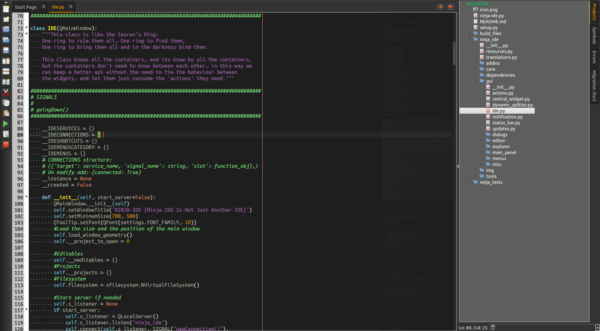 Screenshot of the 2.3 version of NINJA-IDE